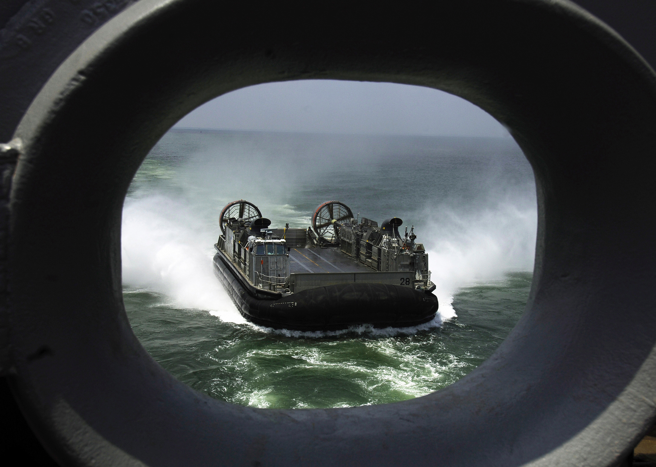 080708-N-5681S-045 A landing craft air cushion assigned to Assault Craft Unit 4 approaches the multipurpose amphibious assault ship USS Iwo Jima (LHD 7) while under way in the Atlantic Ocean July 8, 2008. The Iwo Jima Expeditionary Strike Group is conducting a composite unit training exercise, which provides a realistic training environment to ensure the strike group’s deployment capabilities and readiness. (U.S. Navy photo by Mass Communication Specialist 3rd Class Michael Starkey/Released)